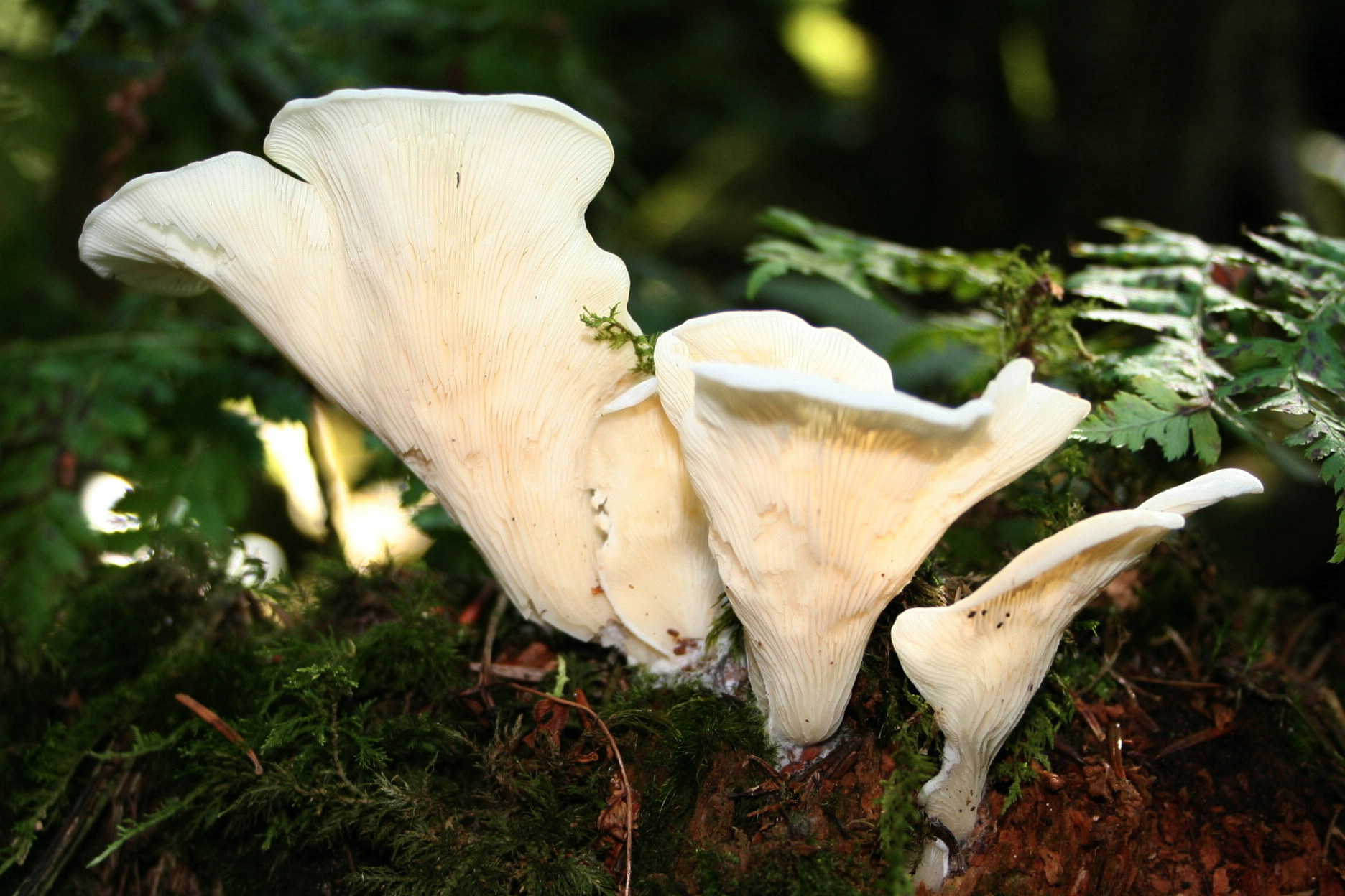 Pleurocybella porrigens (= Phyllotus porrigens = Nothopanus porrigens = Pleurotellus porrigens = Pleurotus porrigens) in a French wood in the Vosges.